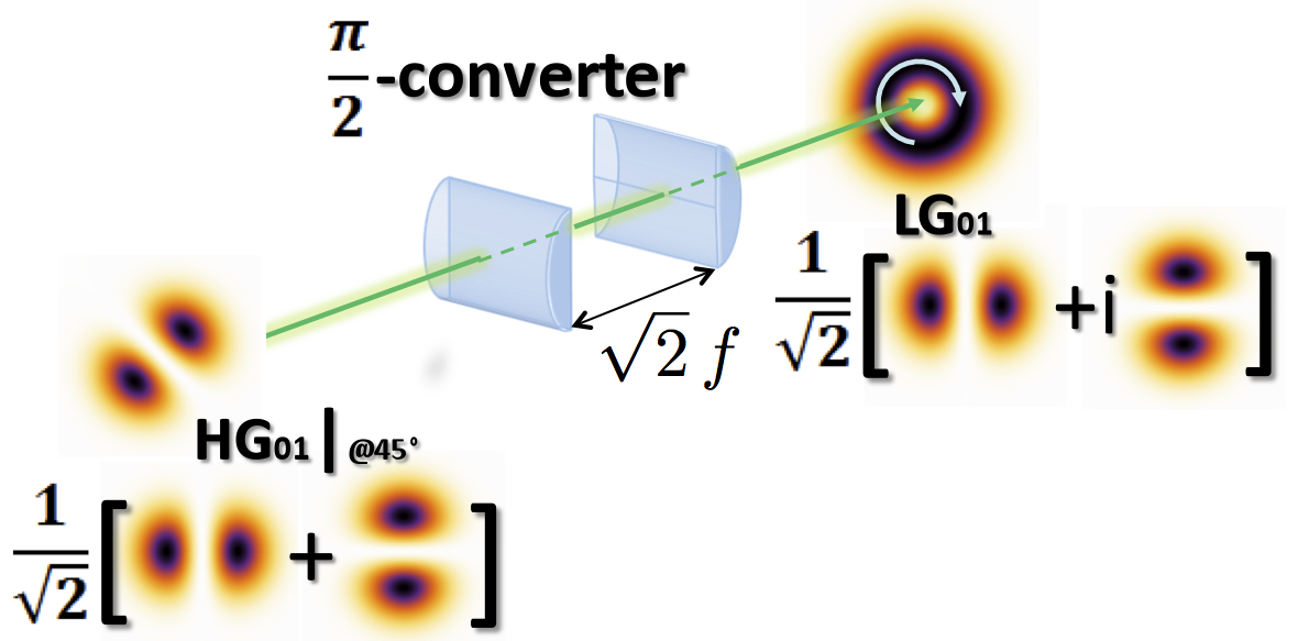 The schematic of cylindrical mode converter, which converts Hermite-Gauss modes into a proper Laguerre-Gauss modes.